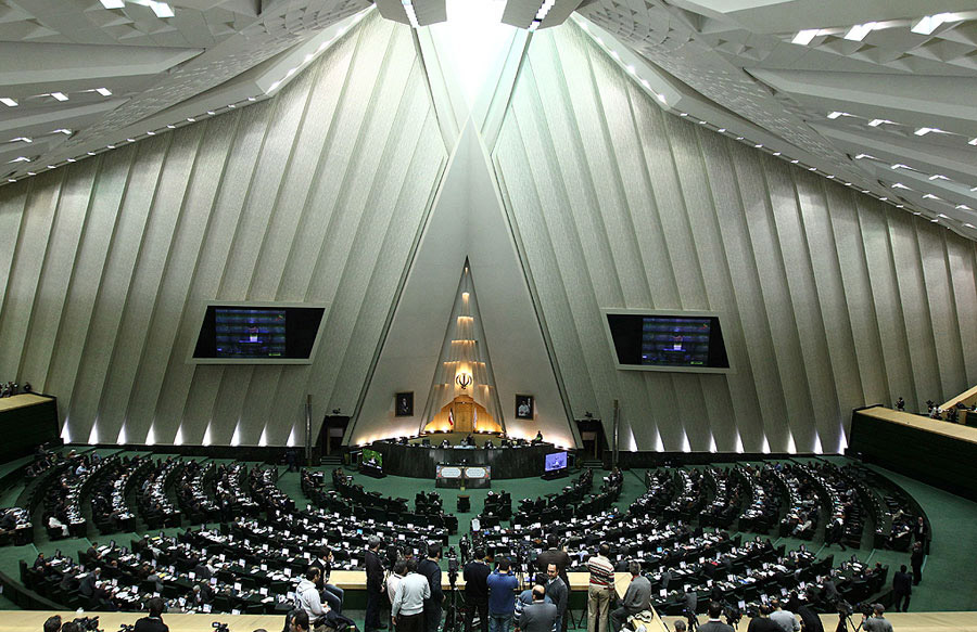 View of inside of the Iranian Parliament.